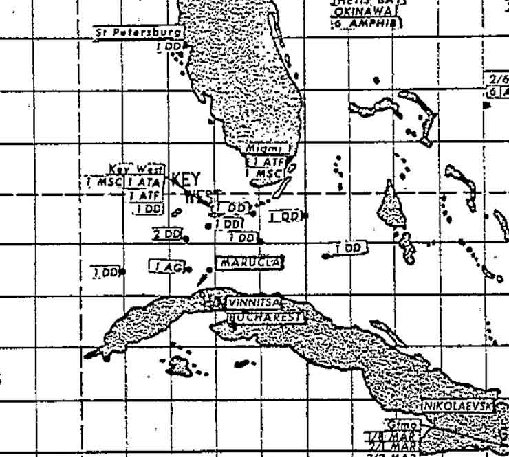 Cuban Missile Crisis, 1962-One of the greatest showdowns between West and East during the long struggle known as the Cold War was the Cuban Missile Crisis. Alarmed by the placement of nuclear armed missiles by the Soviet Union in Cuba, President John F. Kennedy ordered a "quarantine" of Cuban waters by the U.S. Navy's Atlantic Fleet. Orchestrated out of the Fleet's Norfolk headquarters, the patrols eventually convinced the Soviets to remove the missiles without conflict. The image is a recently declassified map used by the Atlantic Fleet showing the position of American and Soviet ships at the height of the crisis.